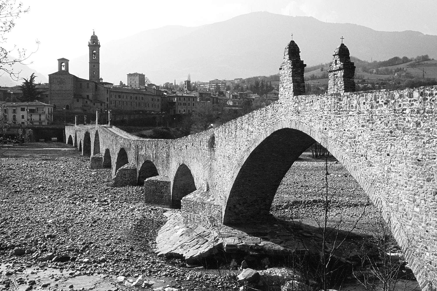 Stone arch bridge over the river Trebbia in Bobbio, Italy